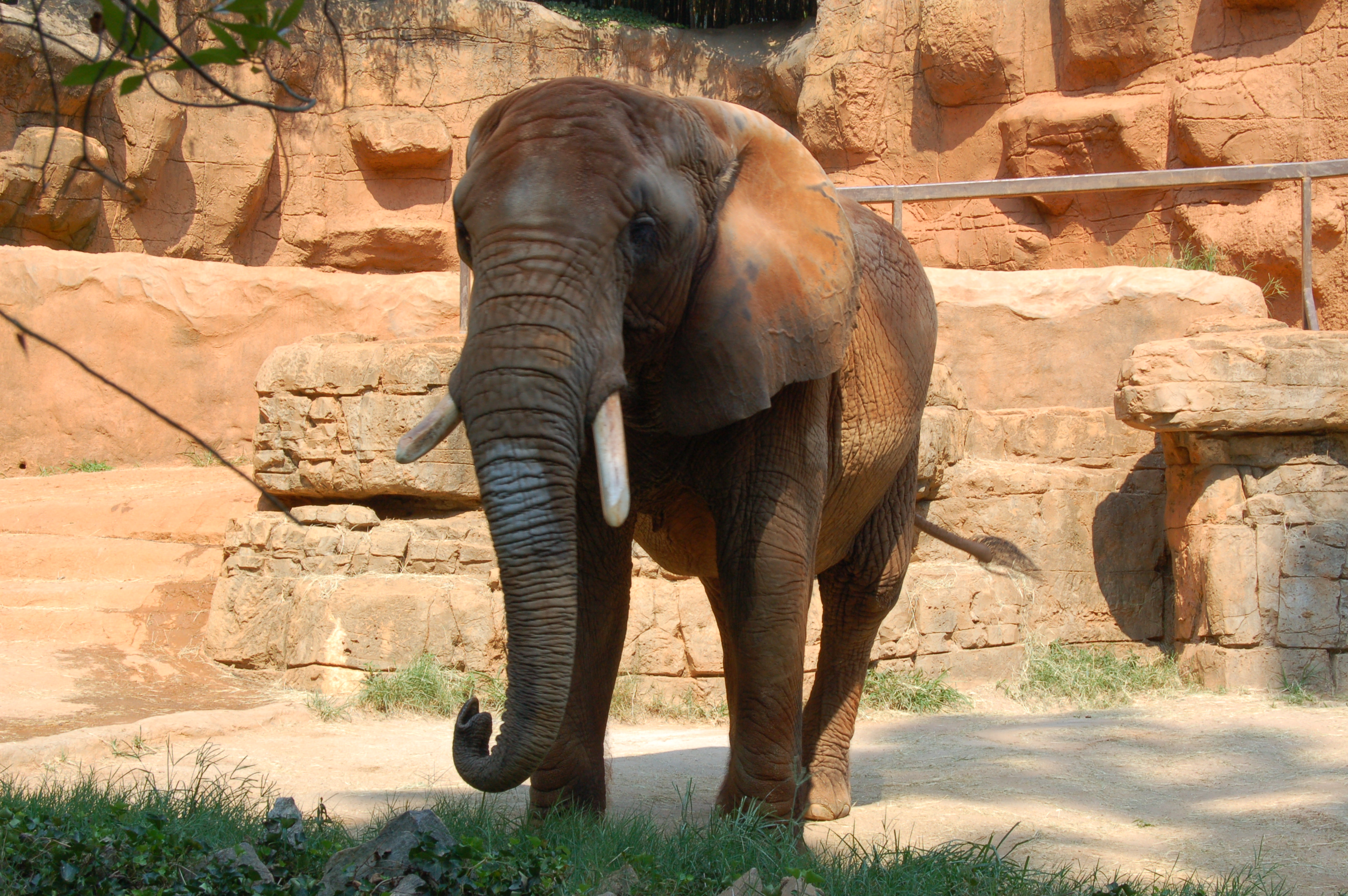 African Elephant at the Greenville Zoo.